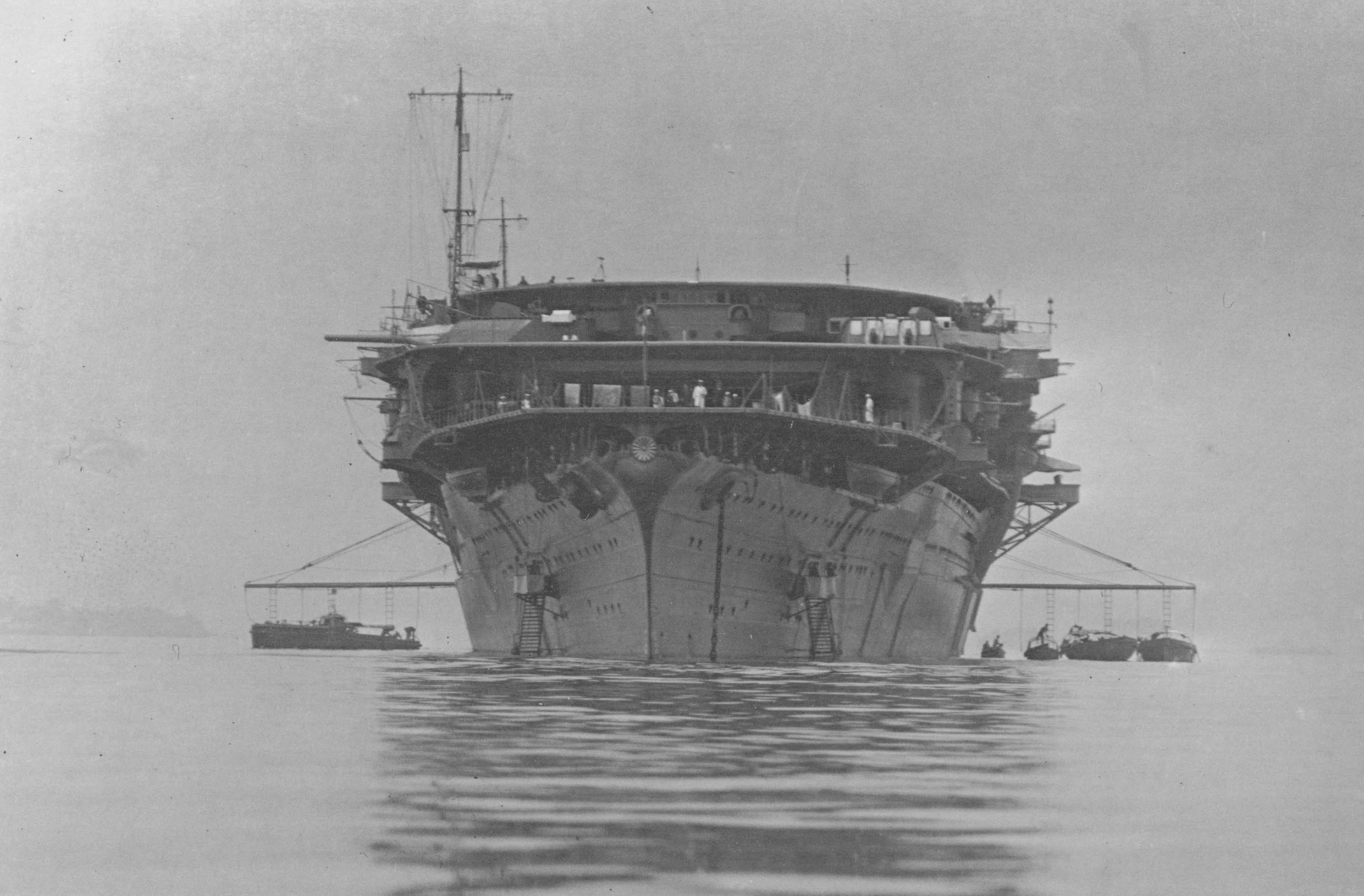 Imperial Japanese Navy aircraft carrier Kaga anchored off Ikari, Japan sometime in 1930.